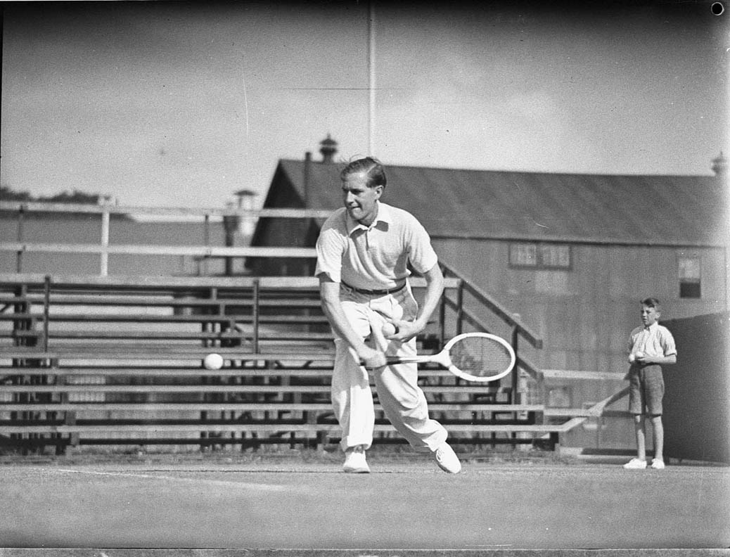 At the end of 1937, Cramm, Henkel, Budge, and Mako all sailed Down Under for the Australian Championships. Cramm (above and below) practices his elegant game.